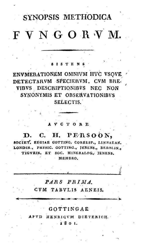 Title page of C.H. Persoon's book Synopsis methodica fungorum (1801)